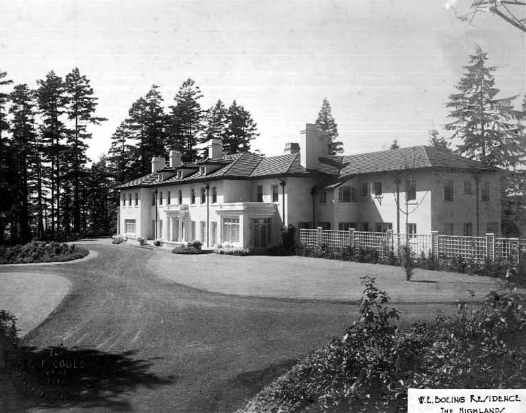 This residence was built in 1913. Caption on image: W.E. Boeing residence. The Highlands On verso of image: Bebb & Gould, Architects Subjects (LCTGM): Boeing, William Edward, 1881-1956--Homes & haunts--Washington (State)--Shoreline; Driveways--Washington (State)--Shoreline; Highlands (Shoreline, Wash.) Subjects (LCSH): Mansions--Washington (State)--Shoreline